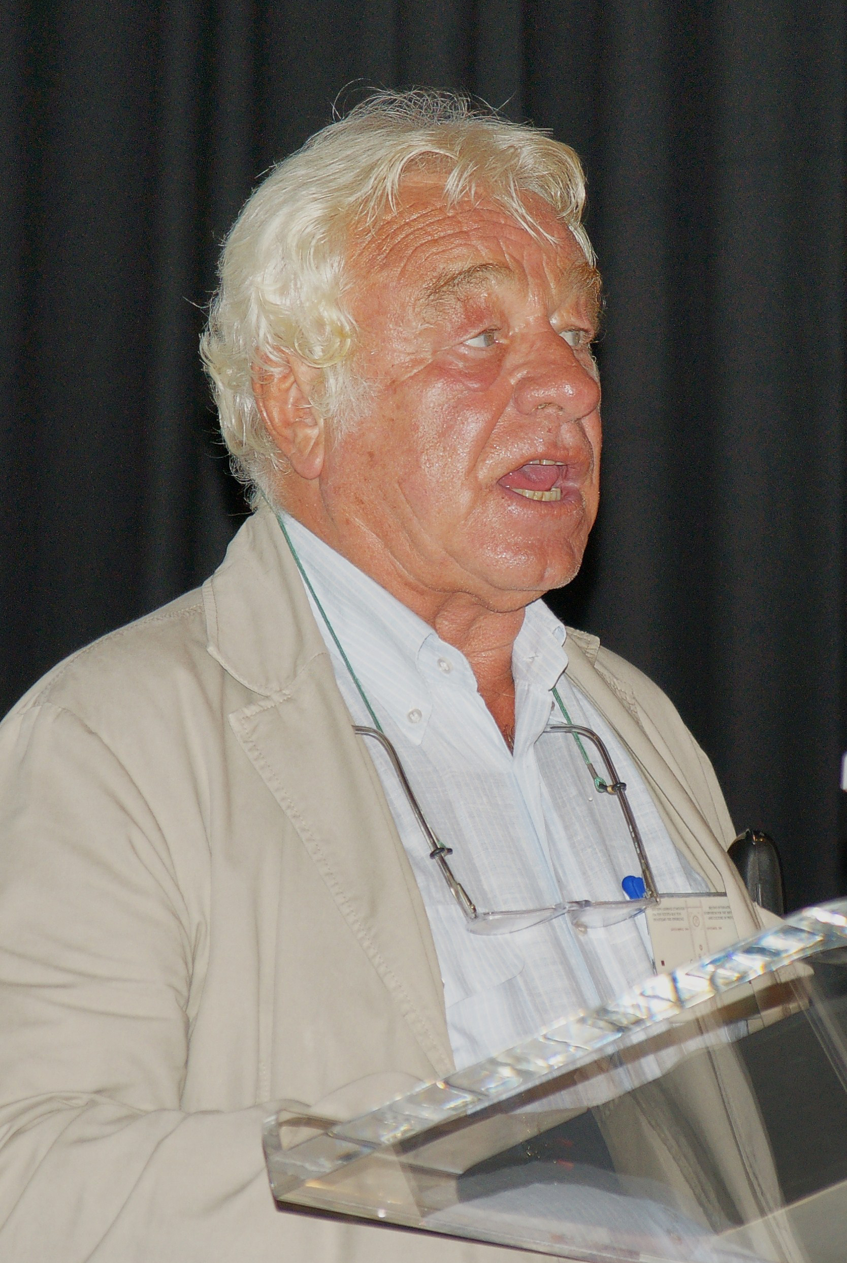 Gino Benzoni. Photograph of September 2009, taken in Preveza, Greece, during the 2nd International Symposium for the History and Culture of Preveza.